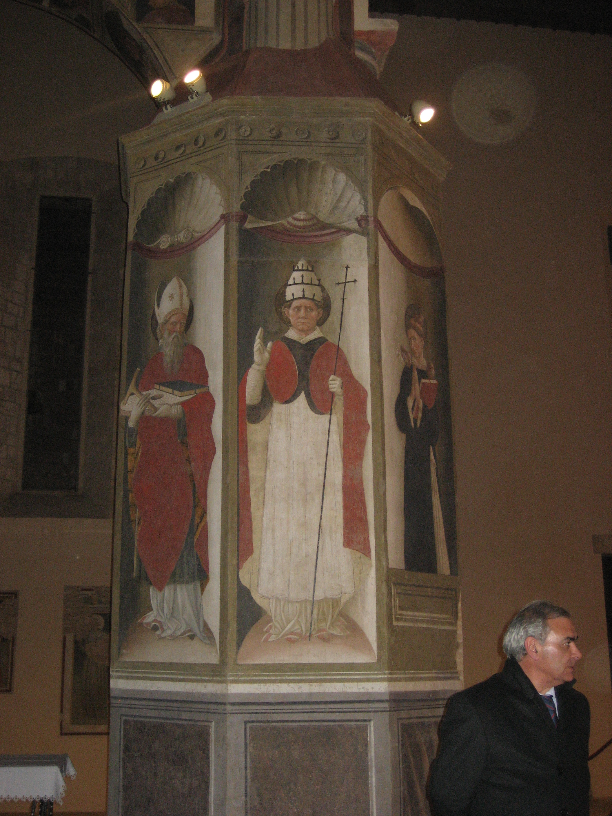 St. Biagio, Pope Celestino V and Saint Lawrence, part of the frescos of the Choir in the Cathedral of Atri.